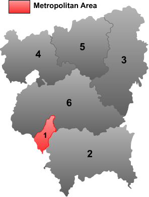 Map of Heyuan in Guangdong province.